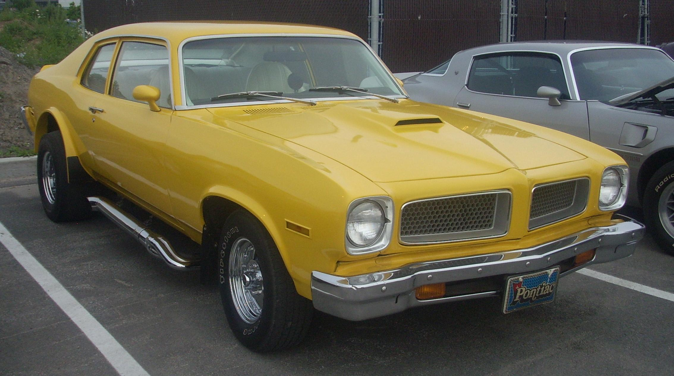 1974 Pontiac GTO photographed in Laval, Quebec, Canada at Centropolis Laval.